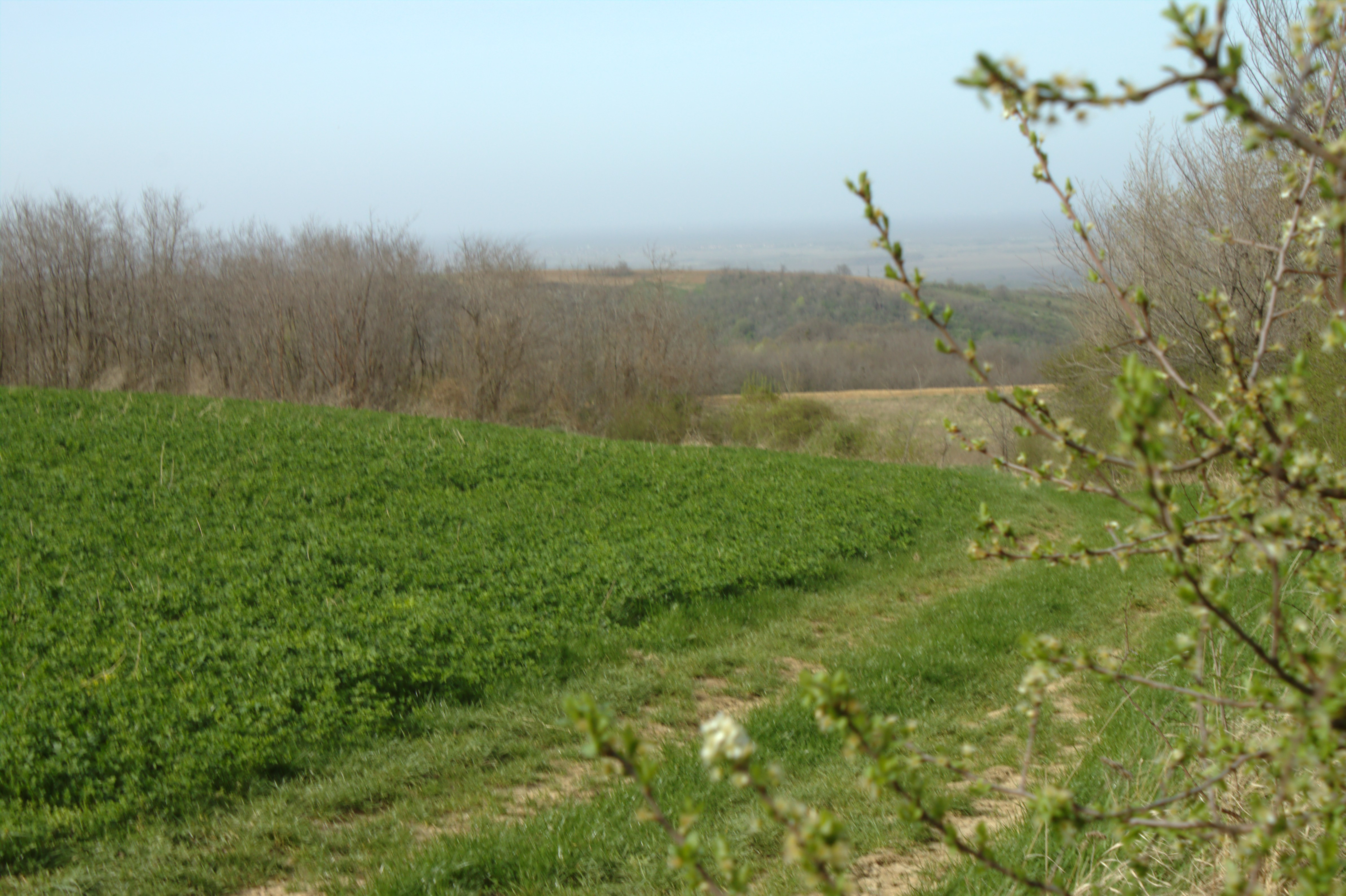 A tourist path from Stražilovo to Velika Remeta monastery, Fruška Gora National Park, Serbia